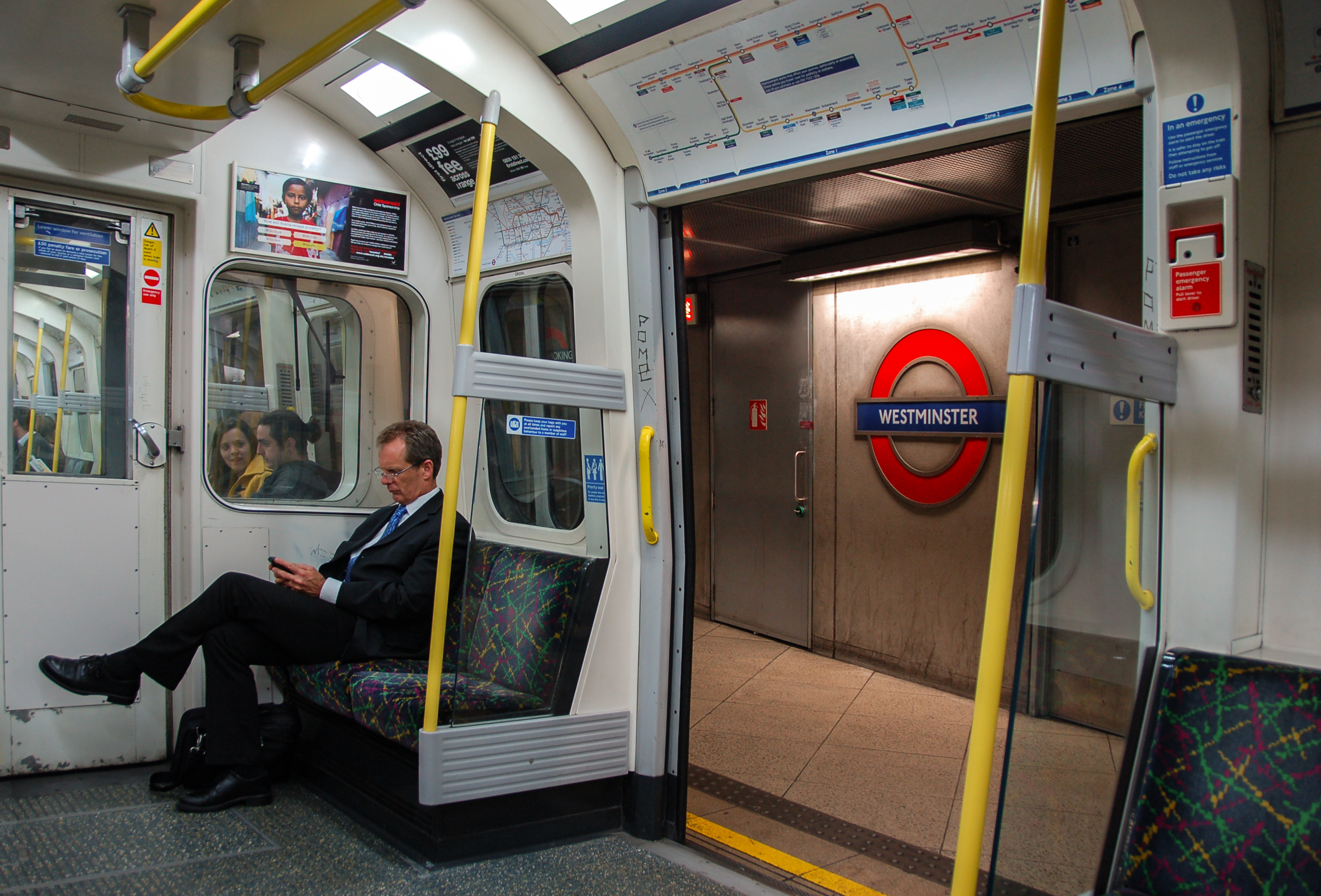 A Circle Line train (type C69) waiting at Westminster station, London, UK